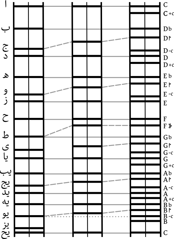 Based on Kiani's book, p183. To edit, use File:Dastan-bandi.svg